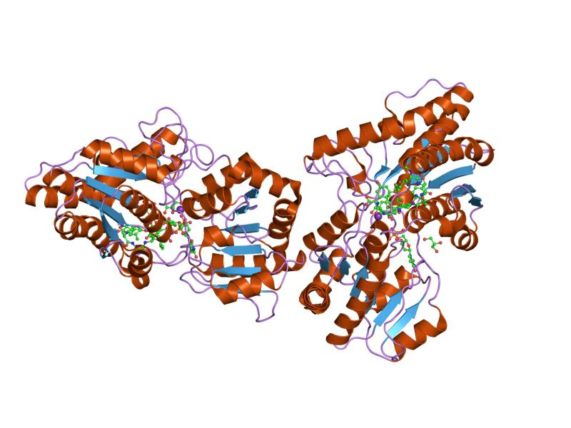 Cartoon representation of the molecular structure of protein registered with 1rrv code.